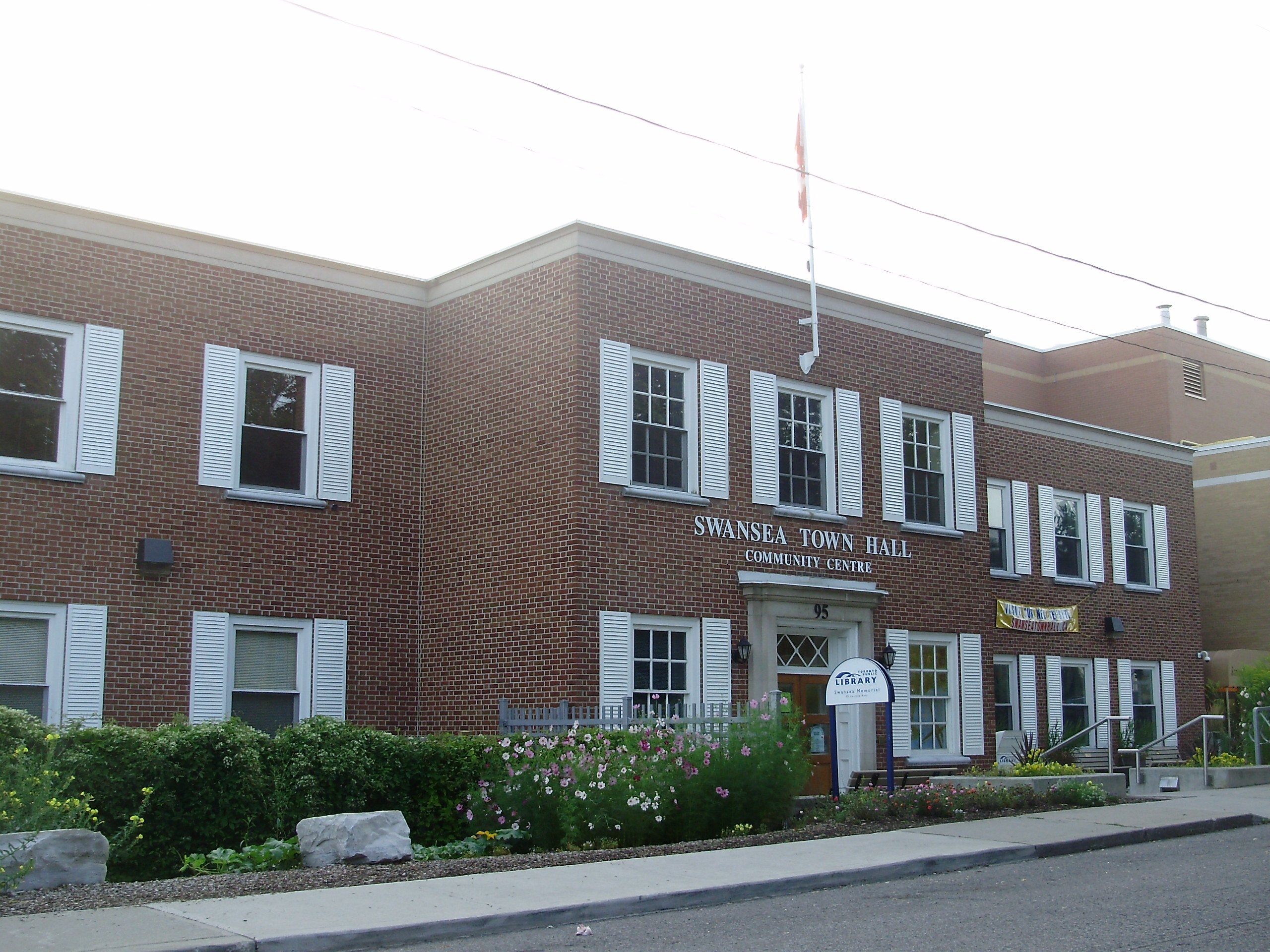 Swansea Town Hall in Toronto, Ontario, Canada. Prior to the Village of Swansea's annexation by the city of Toronto in 1967, it was the village's town hall. Today it is a community center and houses the Swansea Memorial branch of the Toronto Public Library.